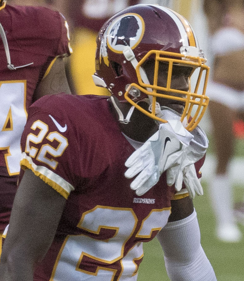 Washington Redskins defensive back, Deshazor Everett, before the start of a preseason game against the New York Jets on August 19, 2016.